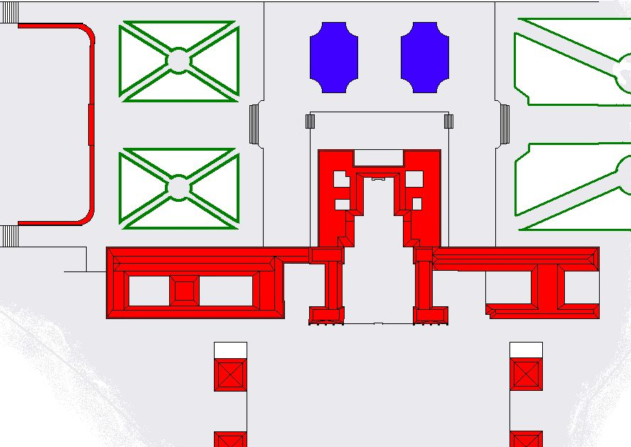 Around 1680 the wings of the nobles and the princes were finished. There was not yet a hall of mirrors. On it's site was a terrace.